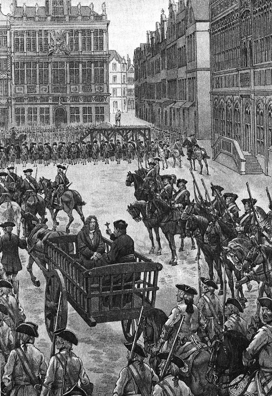 Frans Anneessens on his way to the gallows, 1719. Illustration by Job for Comte Carton de Wiart, La Belgique, 1928